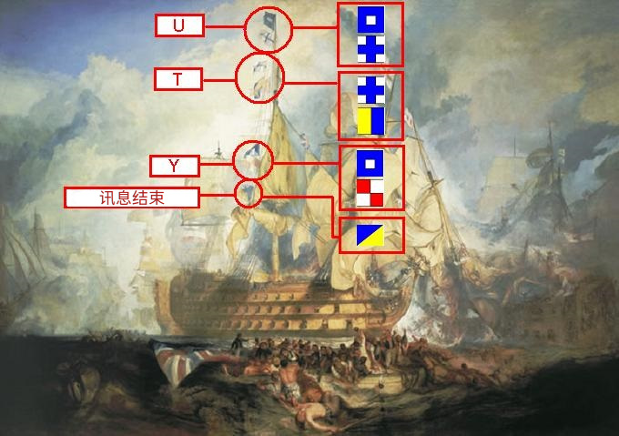 Turner's painting of HMS Victory at Trafalgar, with the famous signal flags highlighted. In Chinese.